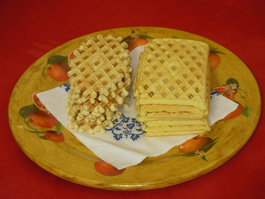 Pizzelle or ferratelle of Atessa